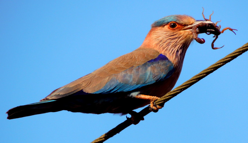 Indian Roller Eating Indian Red Scorpion At Mangaon, Maharashtra.